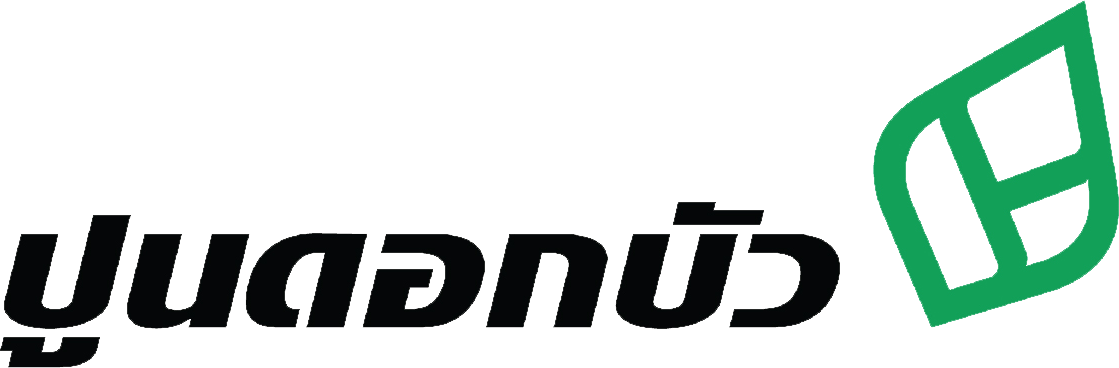 Bua cement logo